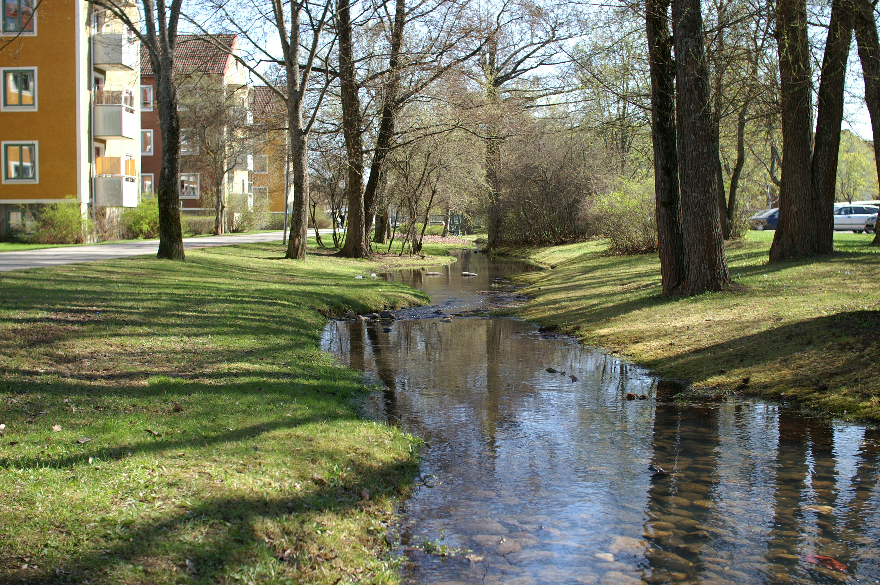 The stream Älvtomtabäcken in Rosta, Örebro, Sweden.